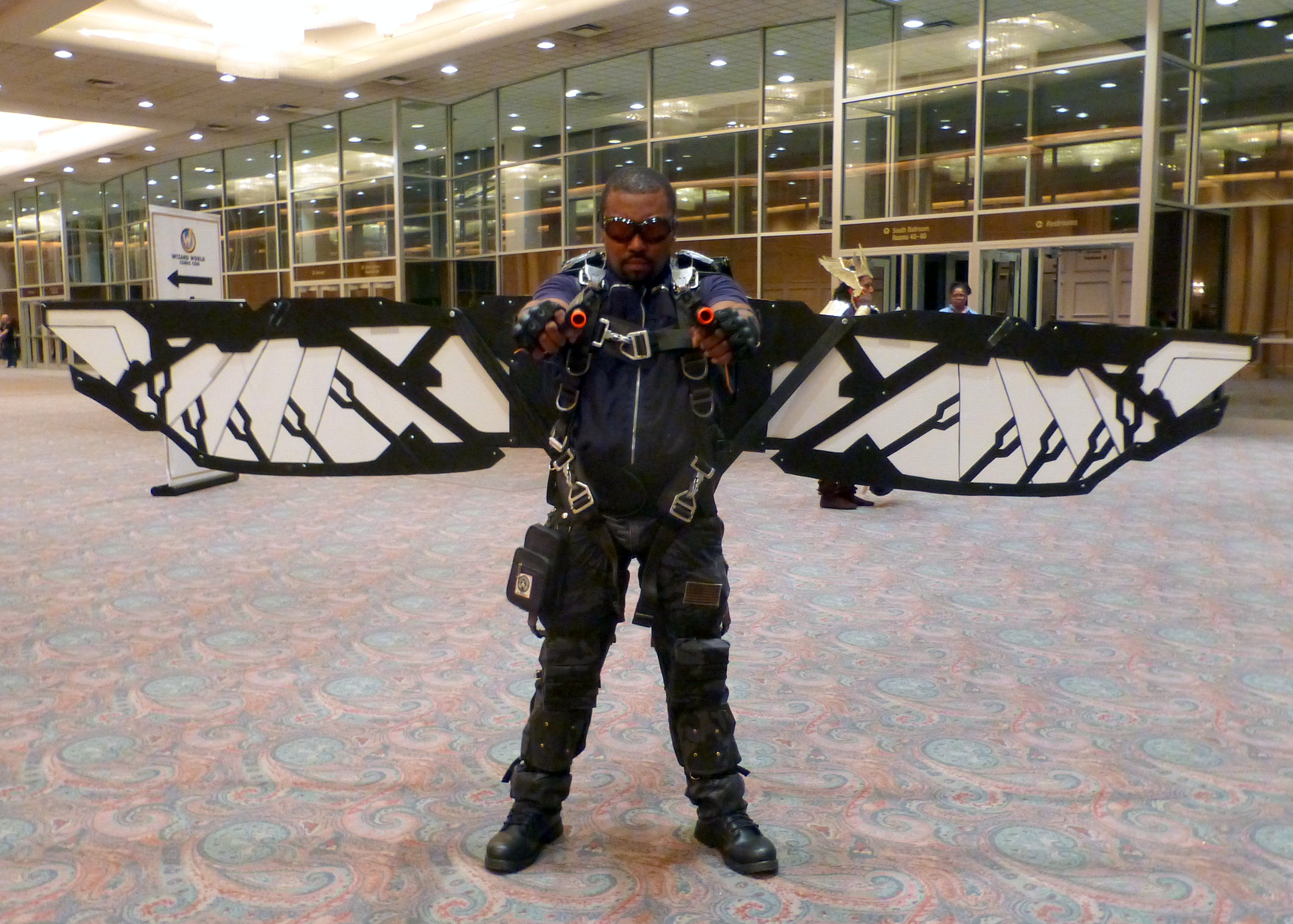 Cosplay at the 2014 Wizard World Chicago.